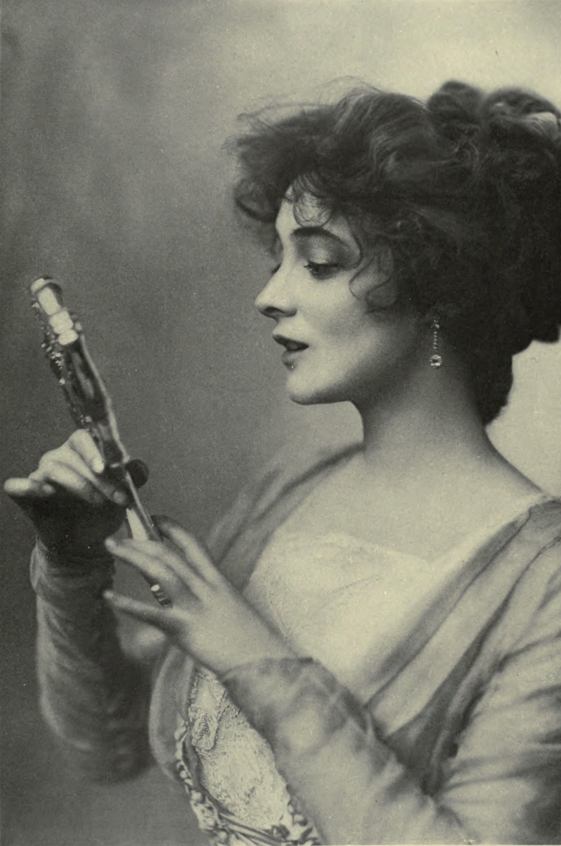 Actress Marie Doro